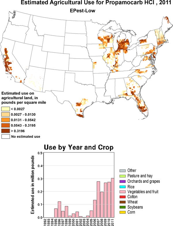 Propamocarb map of use, USA, 2011 (estimated)